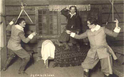 Play Sysmäläinen by Jalmari Finne in the theater Koitto